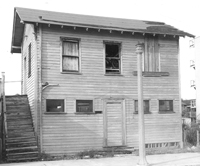 The Calaboose, old West Palm Beach city hall and jail.